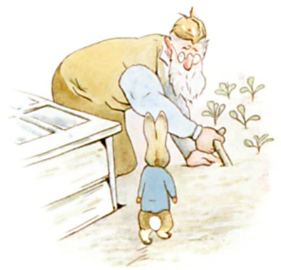 Illustration from children's book The Tale of Peter Rabbit